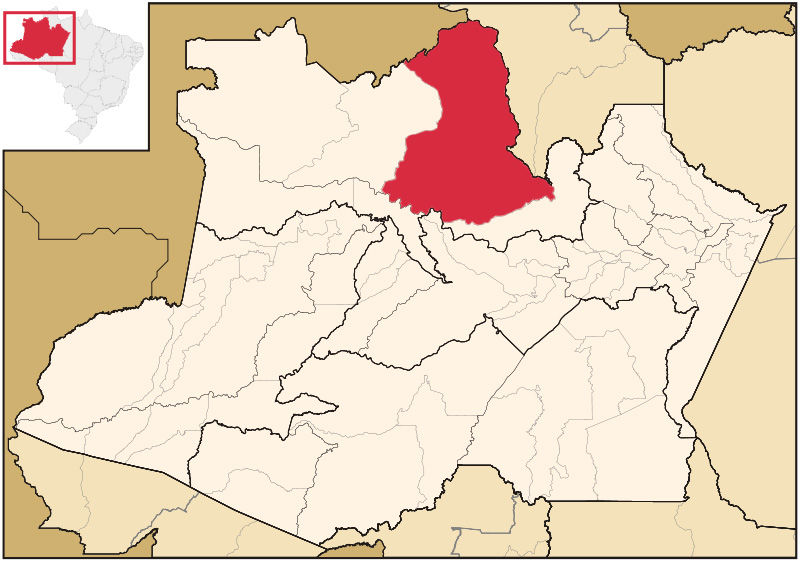 Map of Amazonas highlighting the municipality of Barcelos.